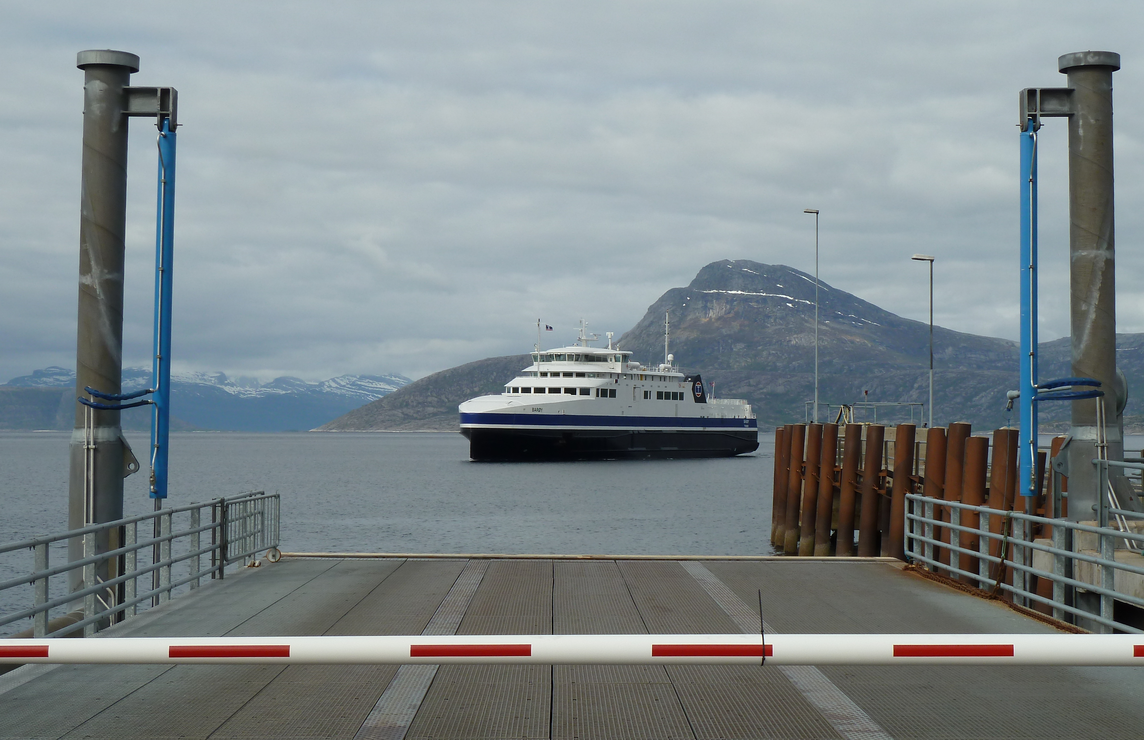 Gas driven car ferry "Barøy" in Bognes, Nordland, Norway.